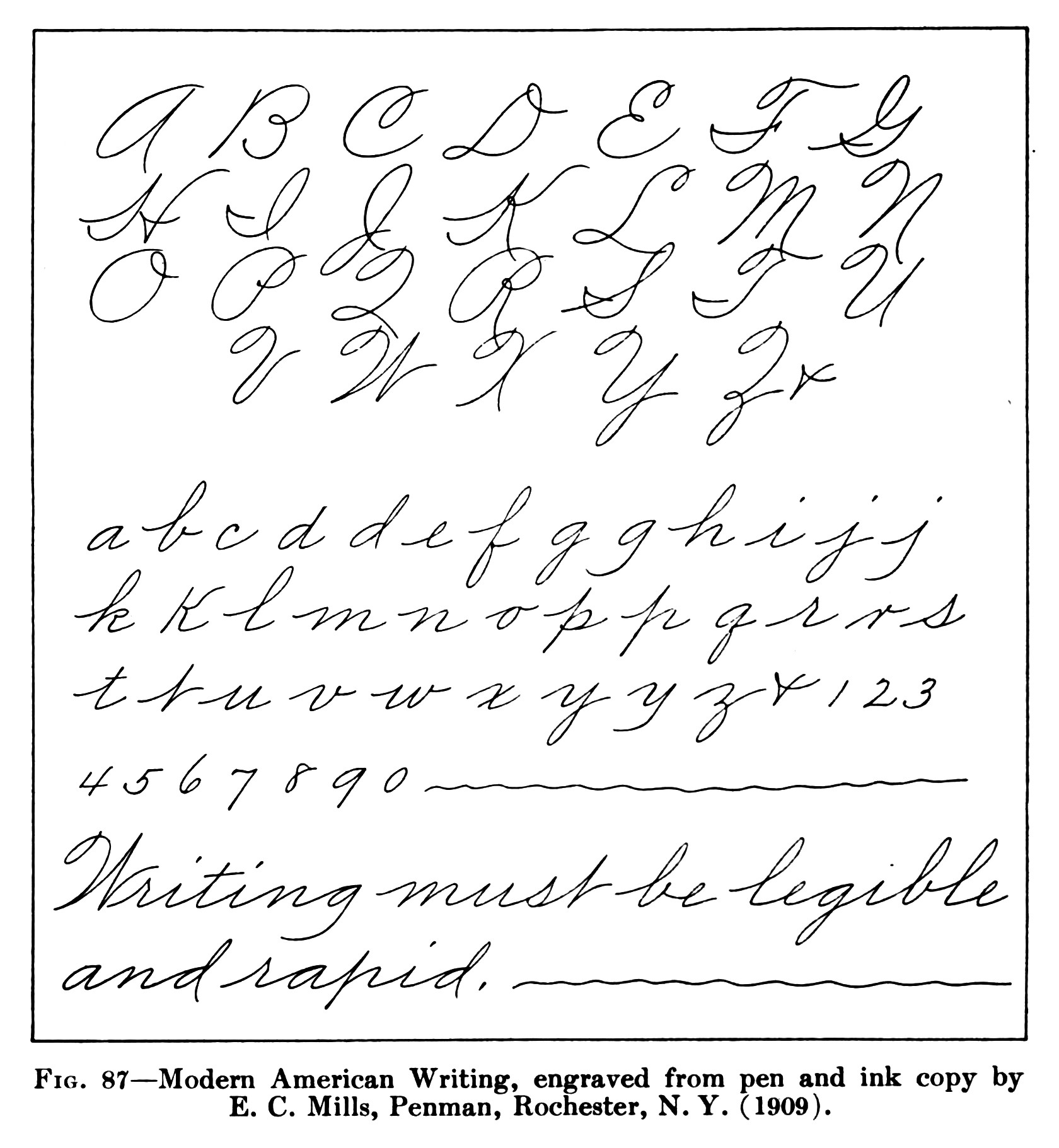 Exemplar of the Business Writing style by American penman Edward Clarence Mills (1873 – 1962). Source description: Out of the late Spencerian and P. D. & S. styles there has since been developed, from approximately about 1880, the modern commercial hand (Figs. 87, 88) , which has certain distinctive characteristics. This style of writing was perfected and popularized through the excellent work of the American commercial schools that for years have given special emphasis to rapid business writing. An essential element of this writing has been a free movement, in which the arm is brought into use in the writing process, and the forms adopted have been those best suited to easy, rapid writing. (Osborn 1910, page 181) Observe in particular with the minuscules (lower case letters): plain cursive forms without shading or flourishing attention to clear and regular inter-letter spacing condensed ascenders and descenders some shortened upward entry strokes starting above baseline alternate forms such as 'p', 'r', and 'k' Also some alternate terminal forms, used at the end of words, either for economy or aesthetics: non descending letters 'd' and 't', compare 't's in Writing and must descending letters 'g', 'j' and 'y', compare 'g's in Writing and legible (see also Spencer Brothers' Abbreviated Hand plate 12, and Abbreviation of Small Letters page 20 in New Spencerian Compendium of Penmanship published in 1879) This hand is written with a pointed nib without flex, or other mono-line instrument, using the muscular arm movement.